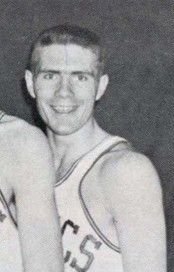 The 1956-57 Boston Celtics that won the first championship for the franchise.